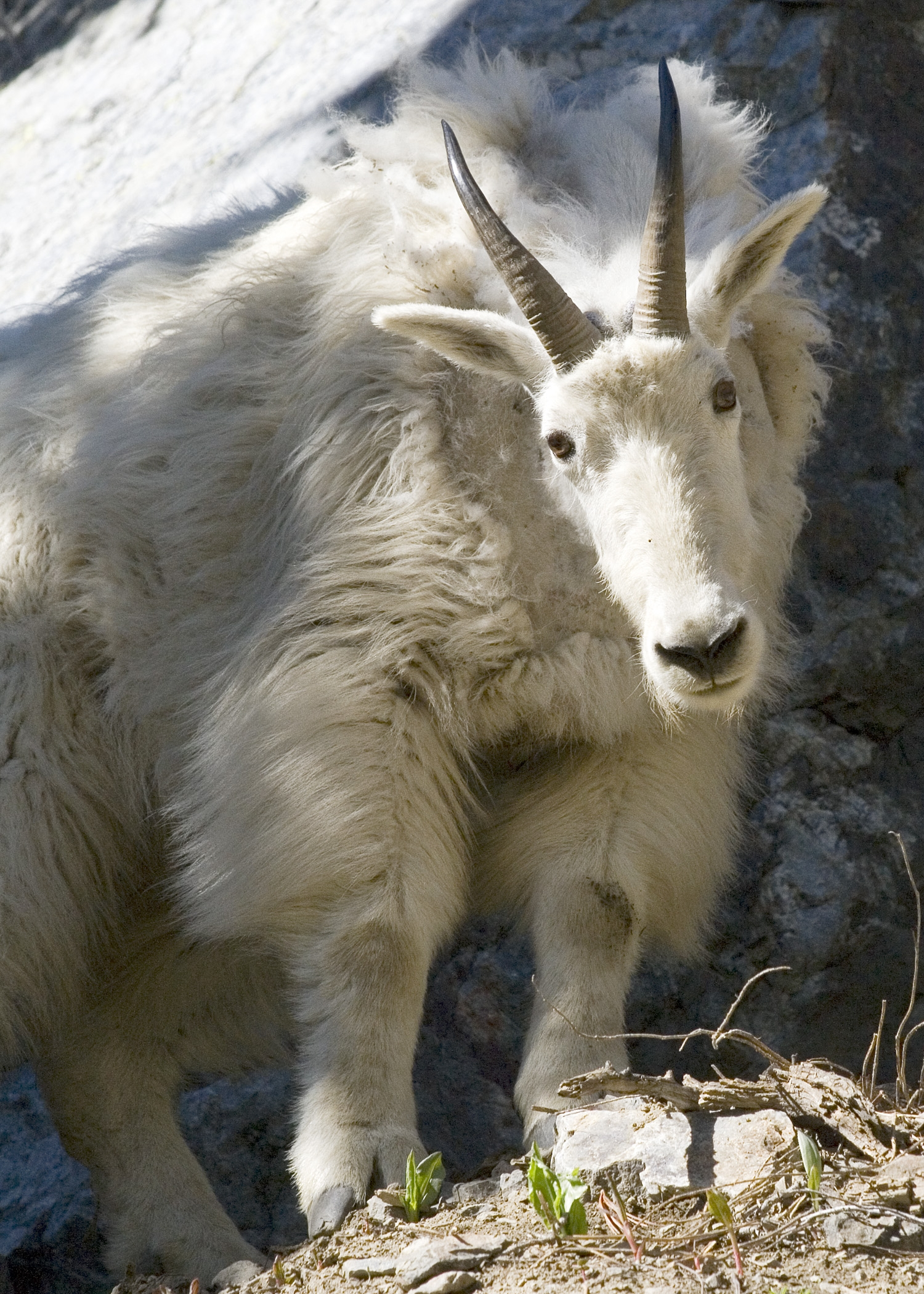 Young mountain goat, Elkhorn Mountains, Baker County, Oregon, USA